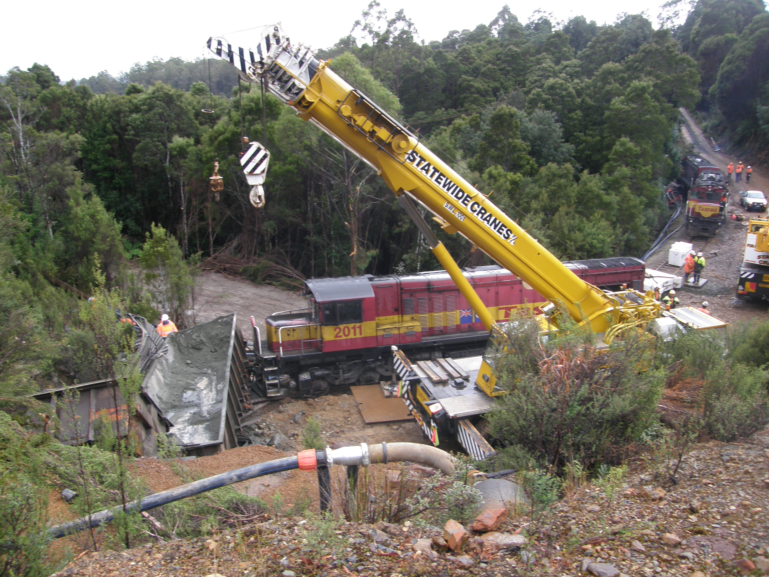 An image of a recovery operation after a train derailment on the Melba Line. This picture was taken from the Murchison Highway.